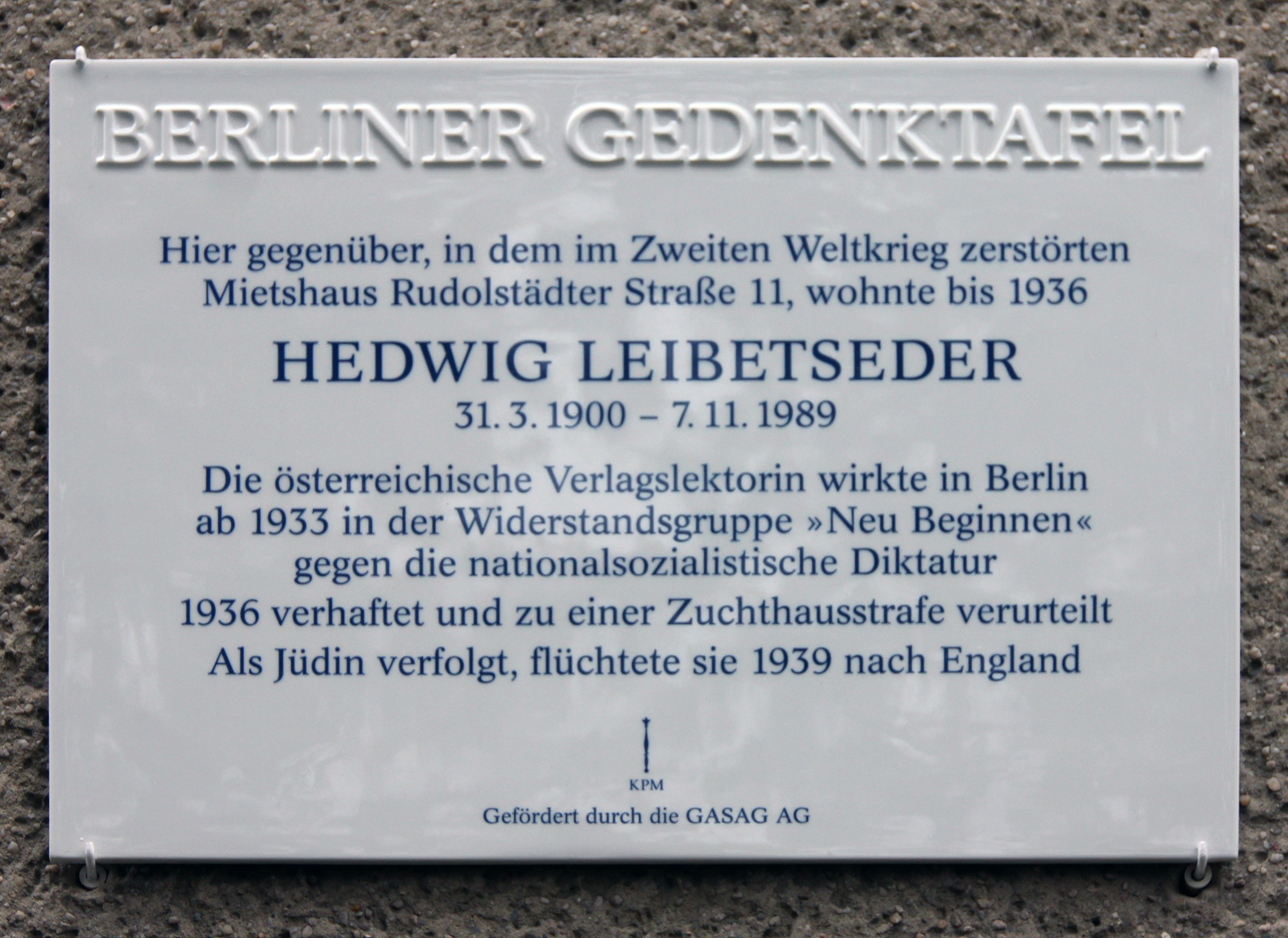 Berlin memorial plaque, Hedwig Leibetseder, Rudolstädter Straße 8, Berlin-Wilmersdorf, Germany